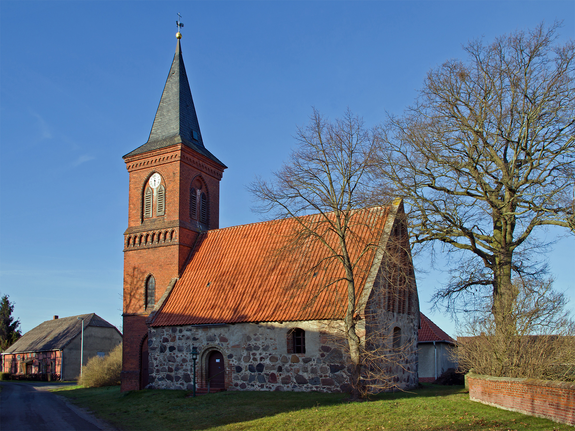 Chapel of the village Volzendorf (district Lüchow-Dannenberg, northern Germany).